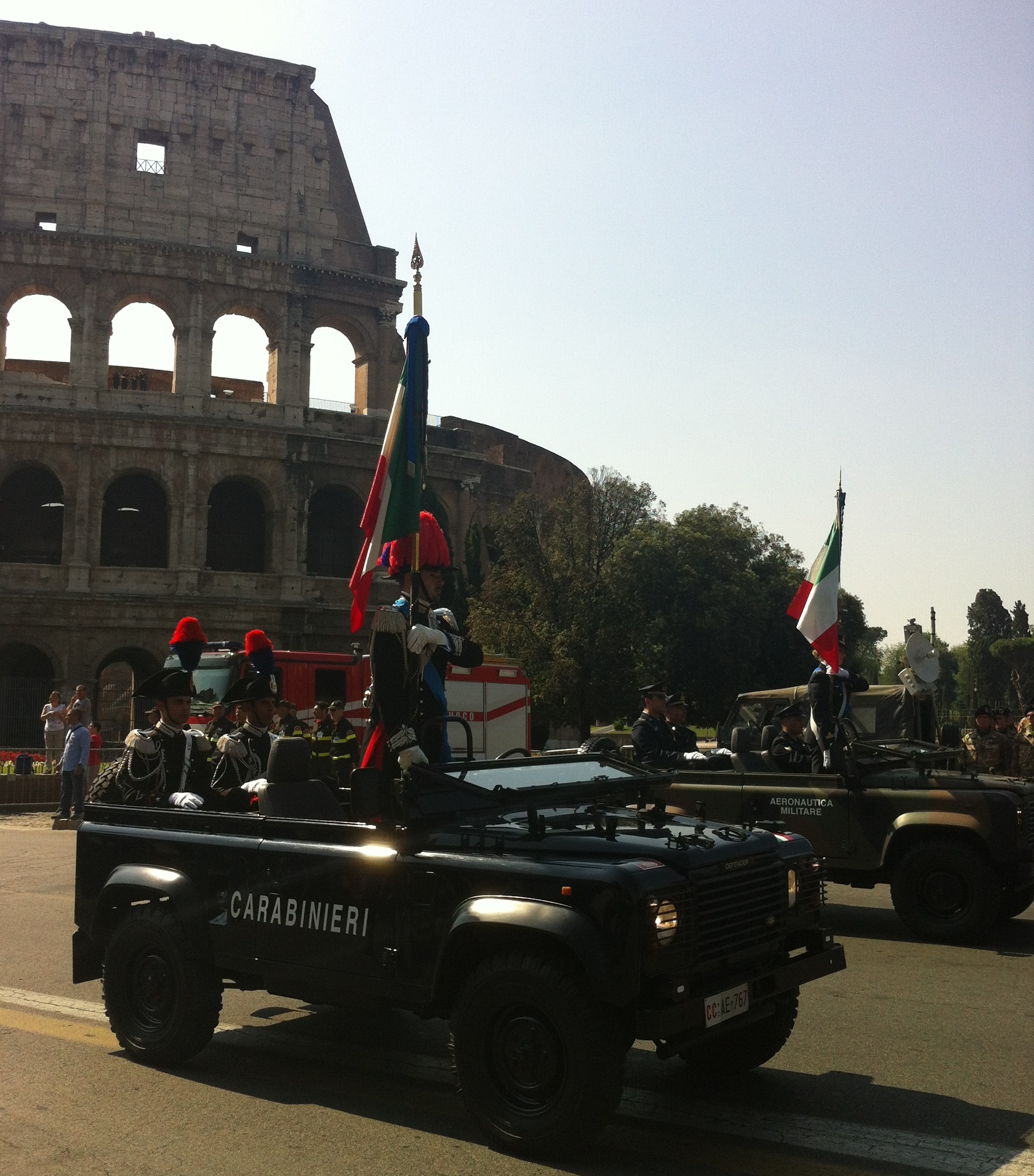 Carabinieri War Flag (2012)